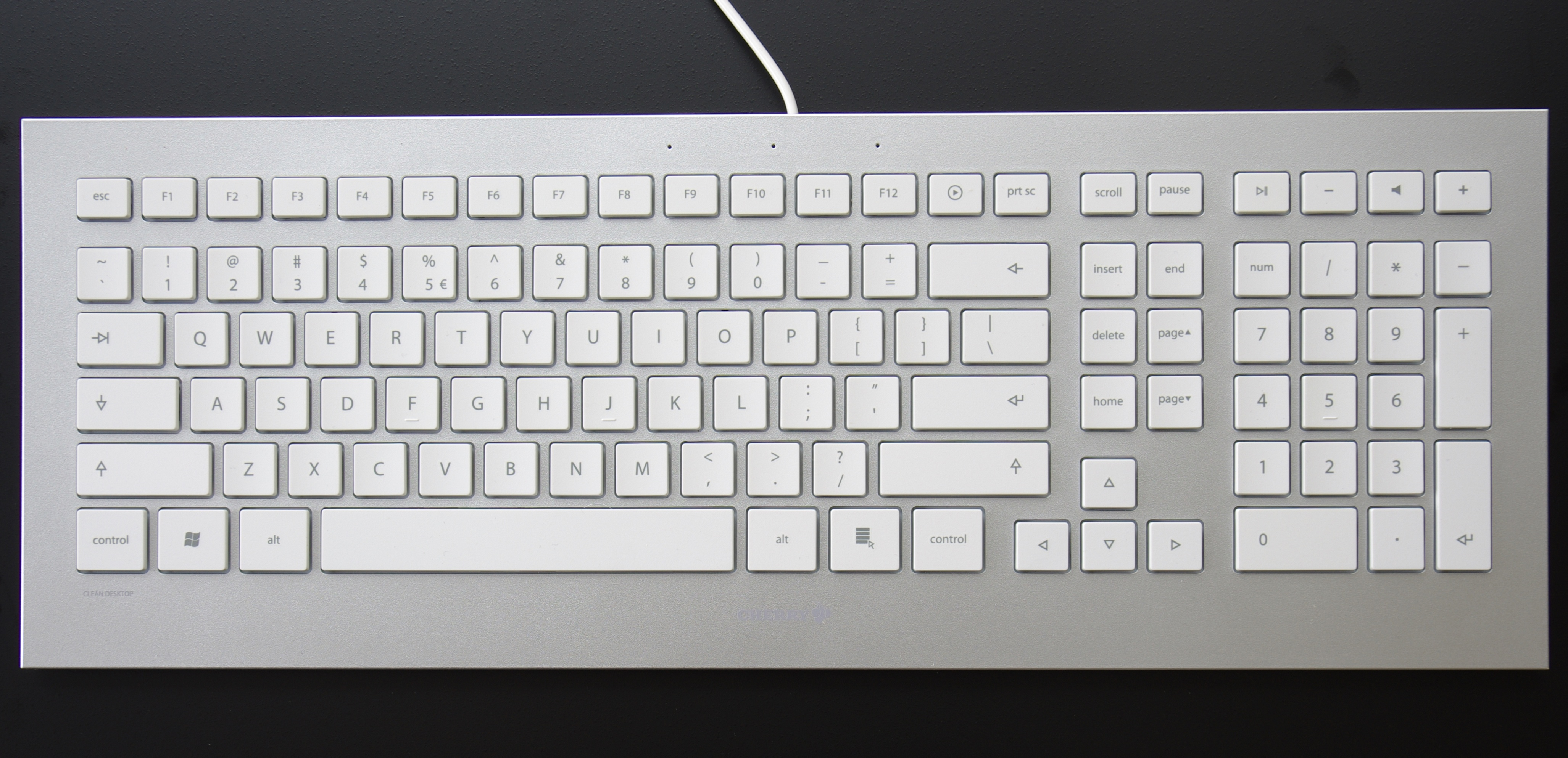 Tastatur Cherry